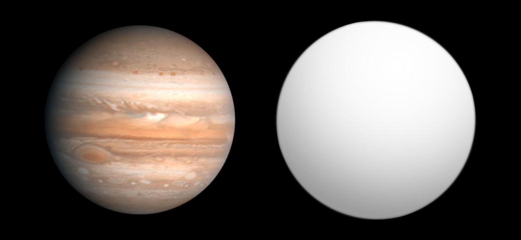 Comparison of best-fit size of the exoplanet CoRoT-9 b with the Solar System planet Jupiter, as reported in the Extrasolar Planets Encyclopaedia[1] as of 2010-10-03. ↑ Extrasolar Planets Encyclopaedia (2010-09-30). Retrieved on 2010-10-03.